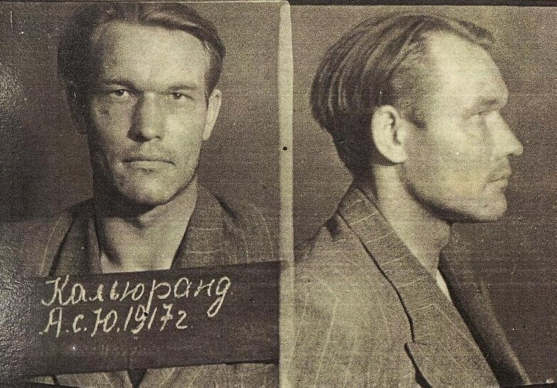 In prison. Ants Kaljurand AKA "Ants the Terrible" (October 20, 1917 Tallinn - March 13, 1951) was an Estonian Second World War freedom fighter for the "Forest Brothers."